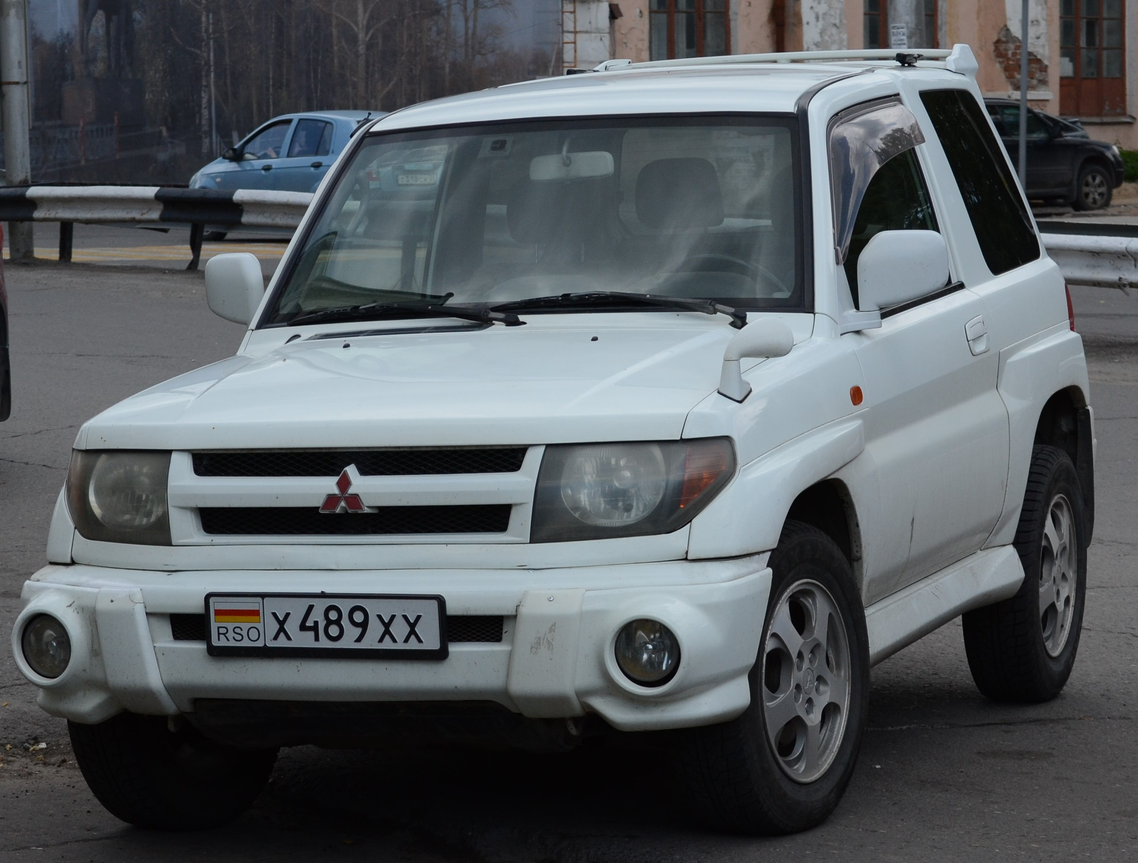 License plate of South Ossetia